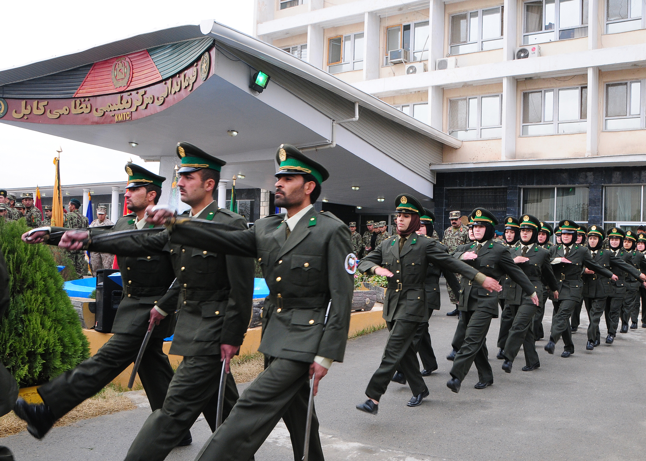 KABUL - (Nov. 24, 2011) Fourteen Afghan National Army (ANA) women march into their graduation ceremony as the second all female Officer Candidate School (OCS) class to go through the Kabul Military Training Center (KMTC). NATO Training Mission – Afghanistan provides coalition advisors to help train the KMTC graduates. NTM-A is a coalition of 37 troop-contributing nations charged with assisting the Government of the Islamic Republic of Afghanistan (GIRoA) in generating a capable and sustainable Afghan National Security Force ready to take lead of their country’s security by 2014. (U.S. Navy Photo by Mass Communications Specialist 1st Class Elizabeth Thompson/Released)